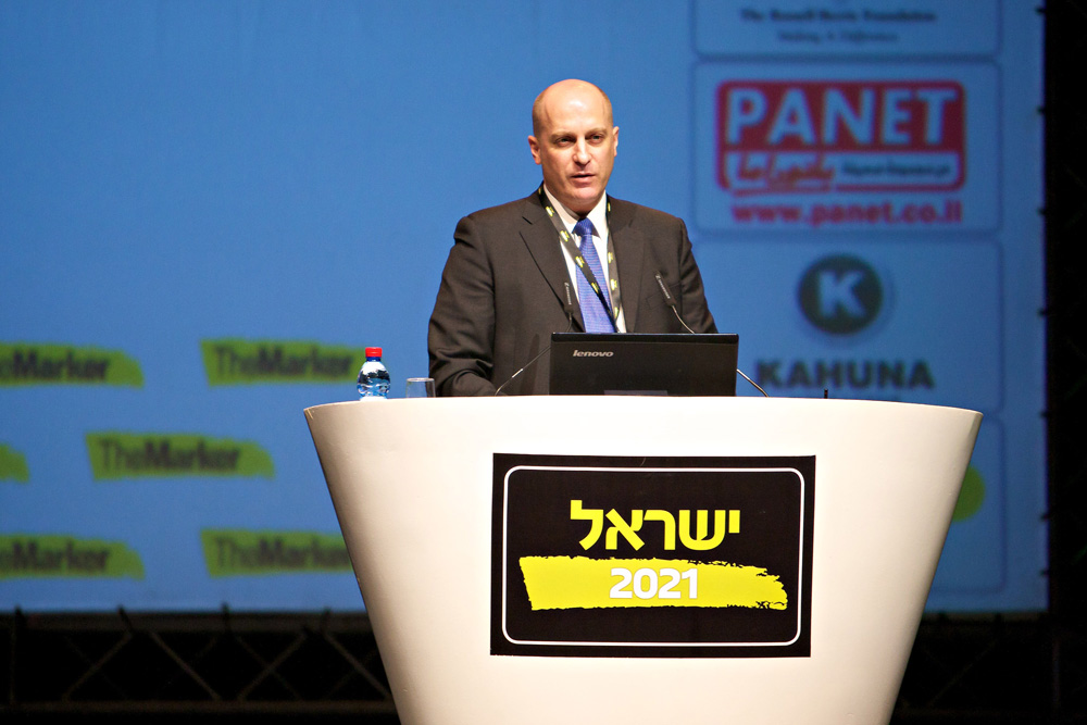 Gidi Grinstein gives the opening remarks at the Israel 2021 Conference. The conference brought together over 3200 leaders from across all sectors to discuss Israel's socioeconomic future.